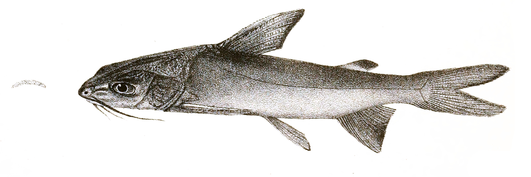 Cephalocassis jatia syn. Arius jatiusThe species names / identity need verification. The original plates showed the fishes facing right and have been flipped here. Arius jatius